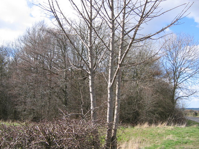 Croom Dale Plantation, Croome, East Riding of Yorkshire, England. From the south edge of the plantation looking NW.